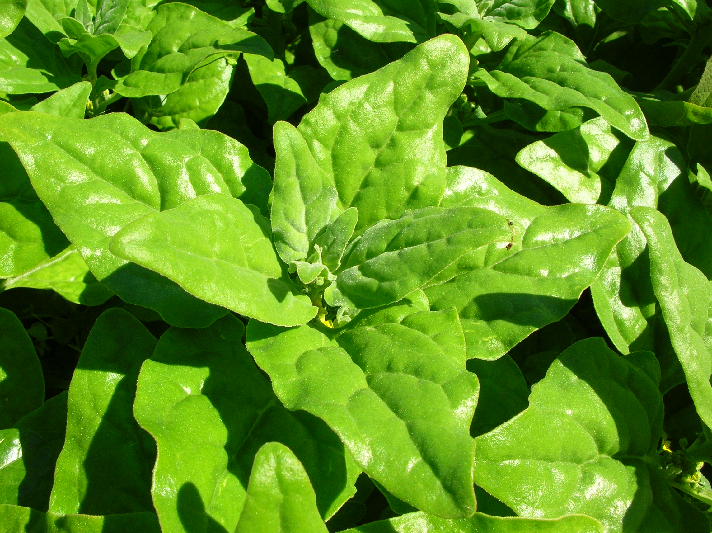 Tetragonia tetragonioides (habit). Location: Oahu, Mokuauia